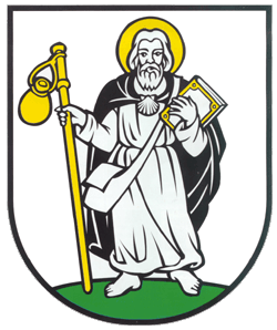 Coats of Arms Tužina -SK